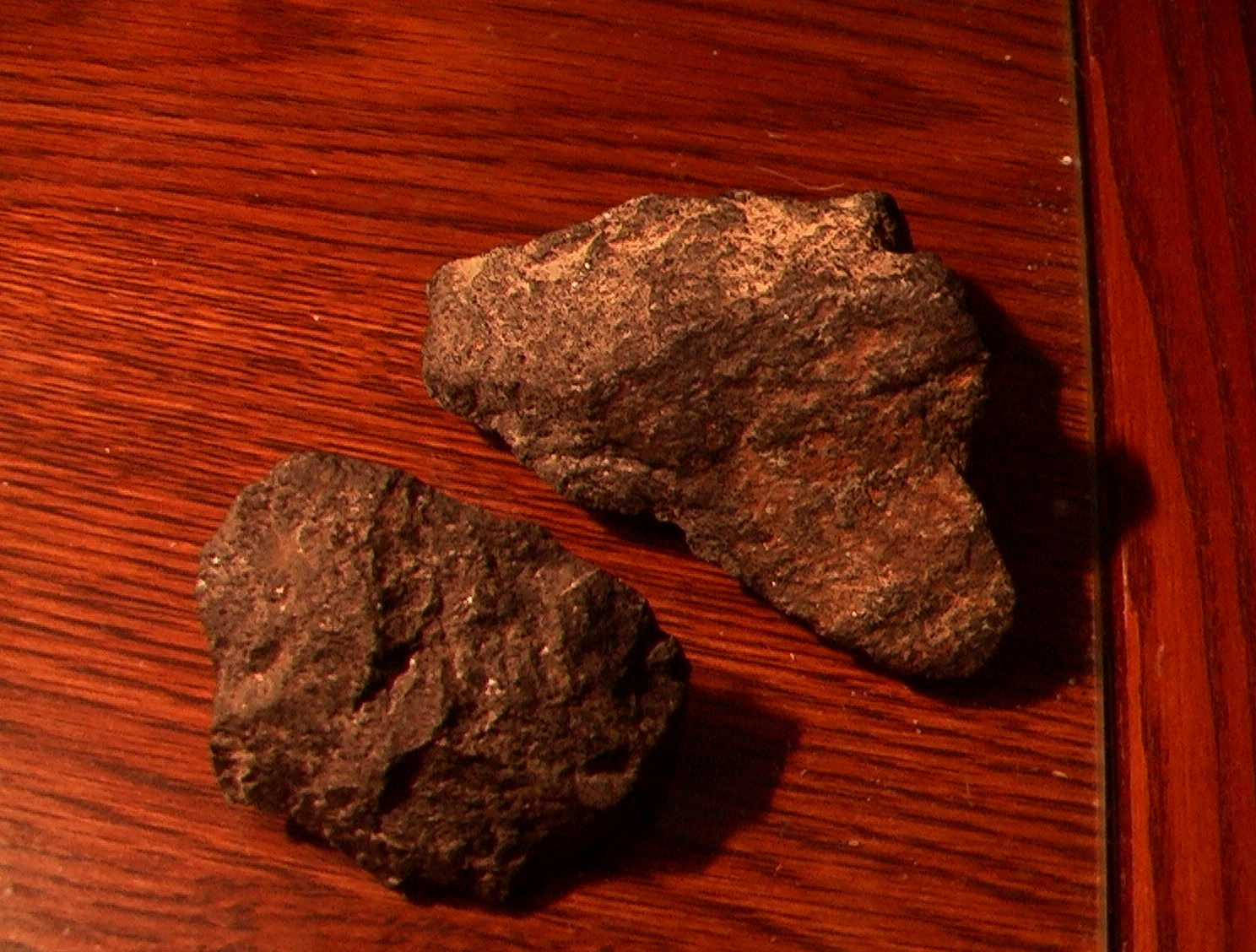 This is a picture of Cumberlandite, photographed by myself.